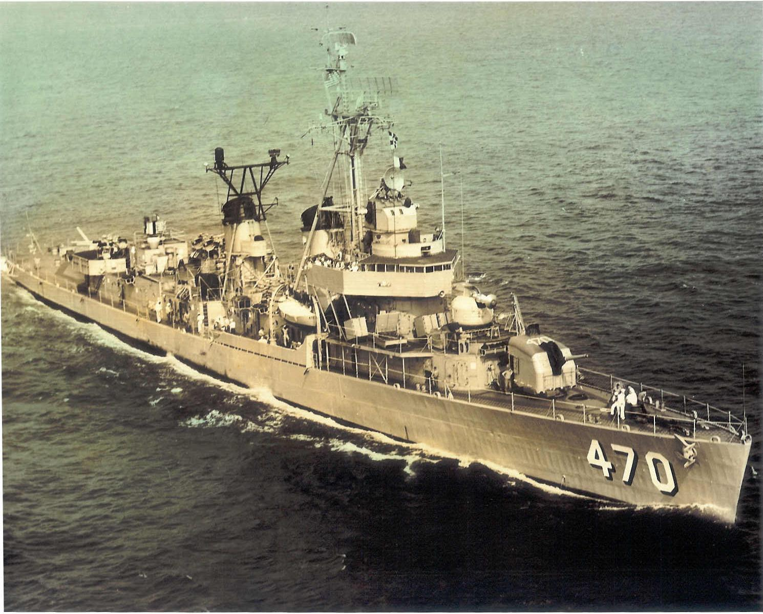 The U.S. Navy destroyer USS Bache (DD-470) underway at sea. Though redesignated a destroyer (DD) in 1962, Bache remained in the antisubmarine destroyer (DDE) configuration she received in the early 1950s.